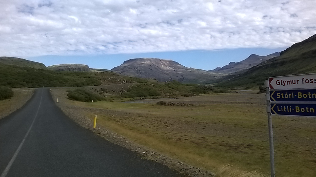 Around Hvalfjörður, West-Iceland